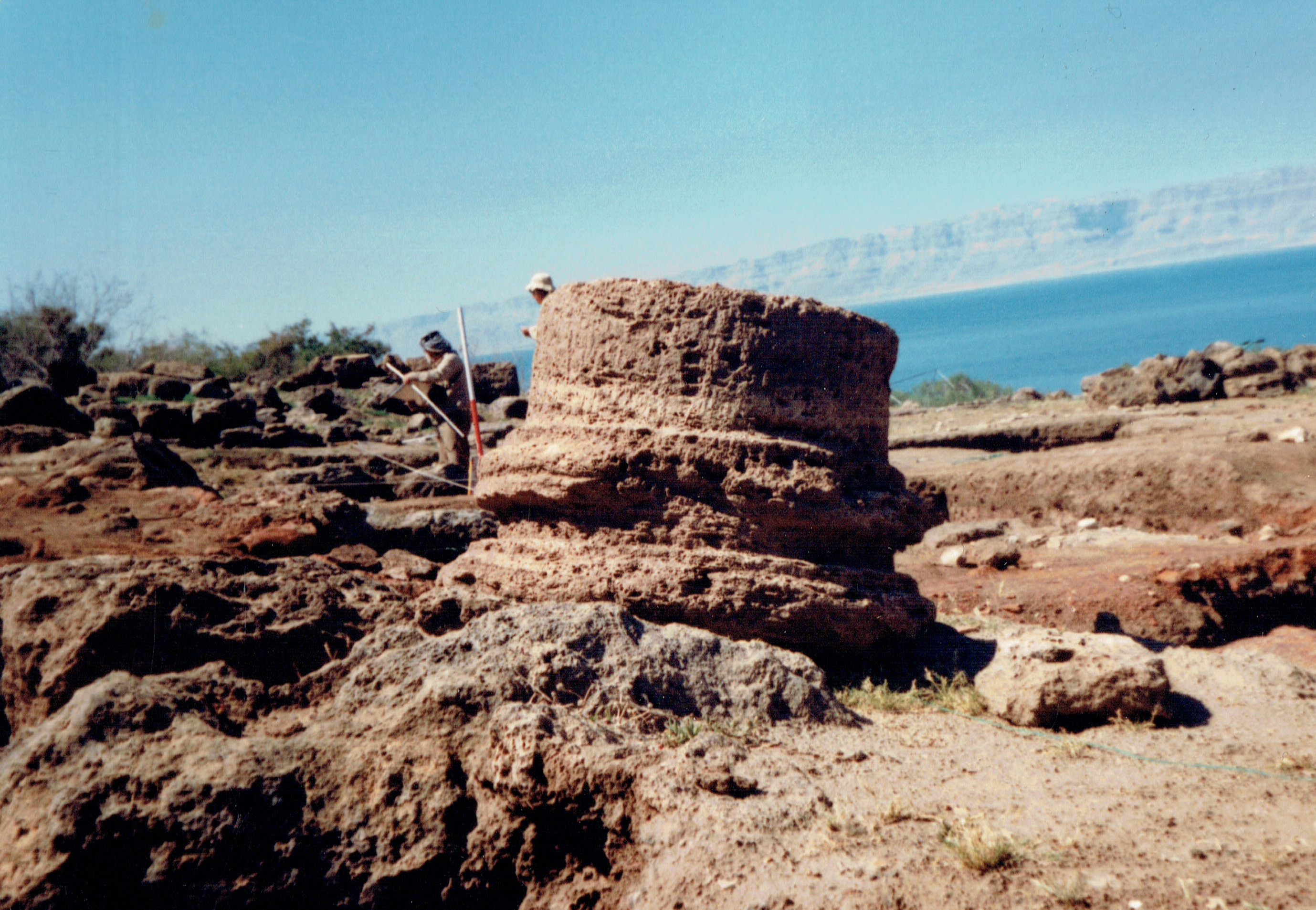 Excavation campaign 1989 by the German Protestant Institute at Ayn az-Zara/Callirrhoe (Jordan)